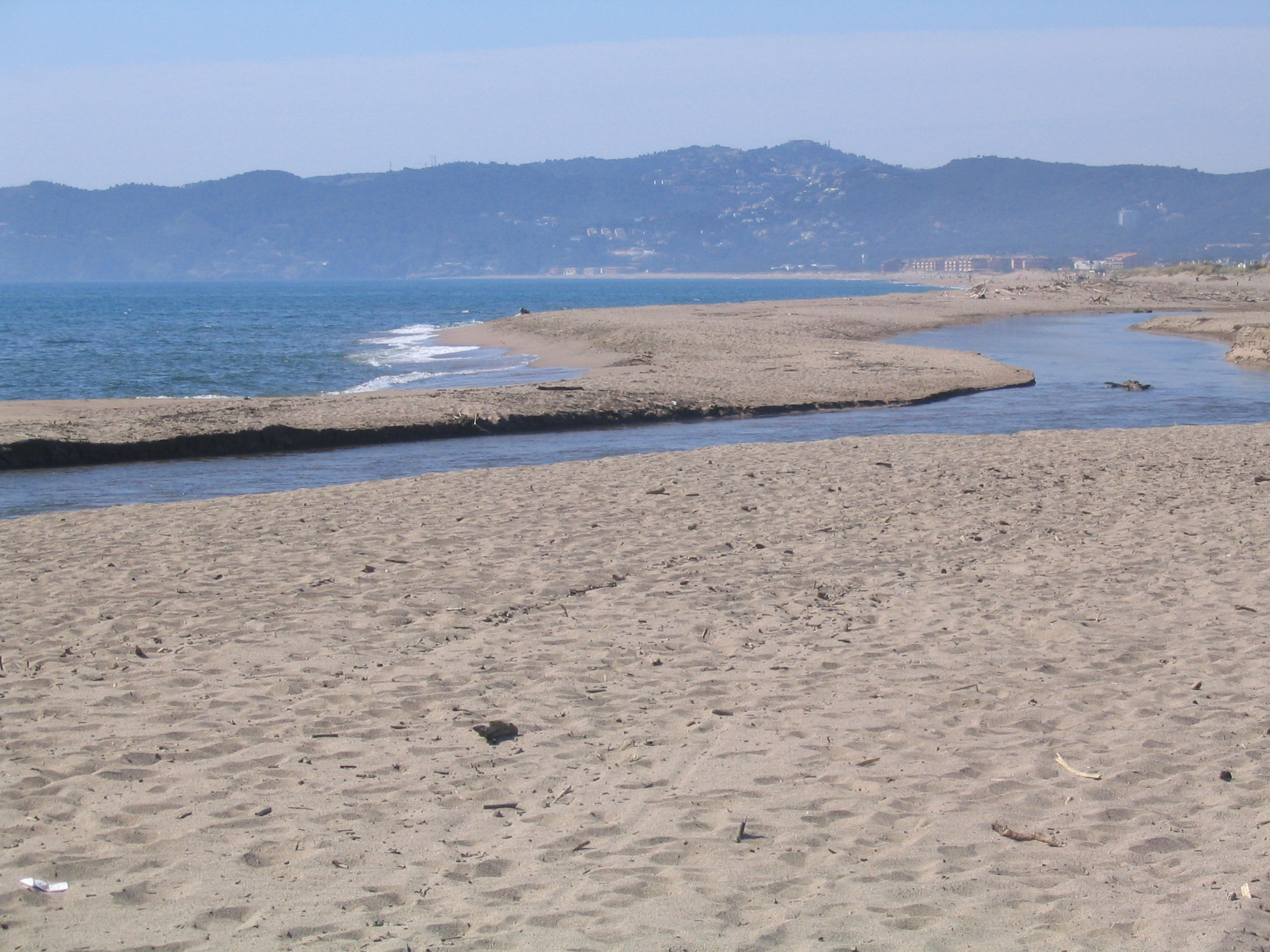 Ter river reaches the sea, at l'Estartit